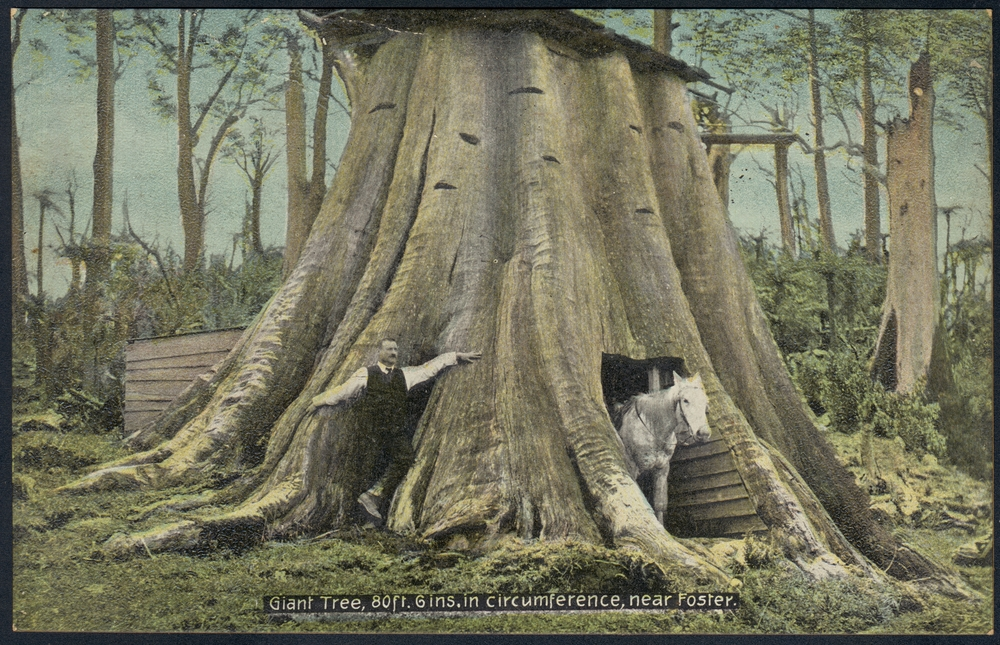 Title: Giant Tree, 80 ft. 6 ins, in circumference, near Foster. [picture] Date created: [ca. 1900-ca. 1909] Series/Collection: Pater, W. T. postcards. Terms of use: No copyright restrictions apply. Copyright status: This work is out of copyright SLV Source ID: 1689983 SLV Accession: H87.206/170 Type: StillImage Description: postcard : SLV Filename(s): a10502:3368694 Update Match Field: 1689983